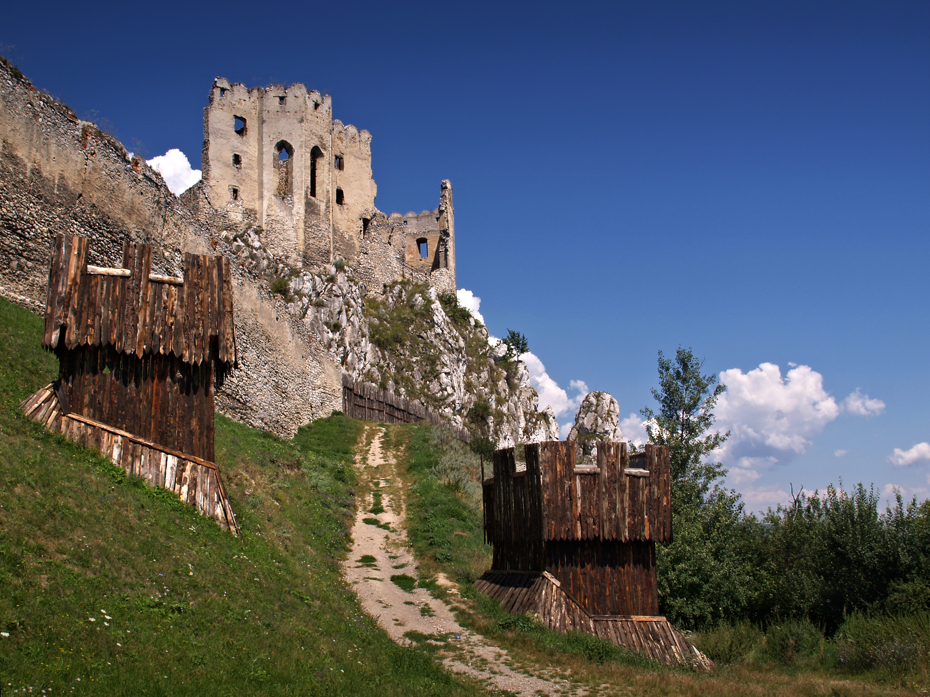 Beckov (Slovakia) - Beckov Castle